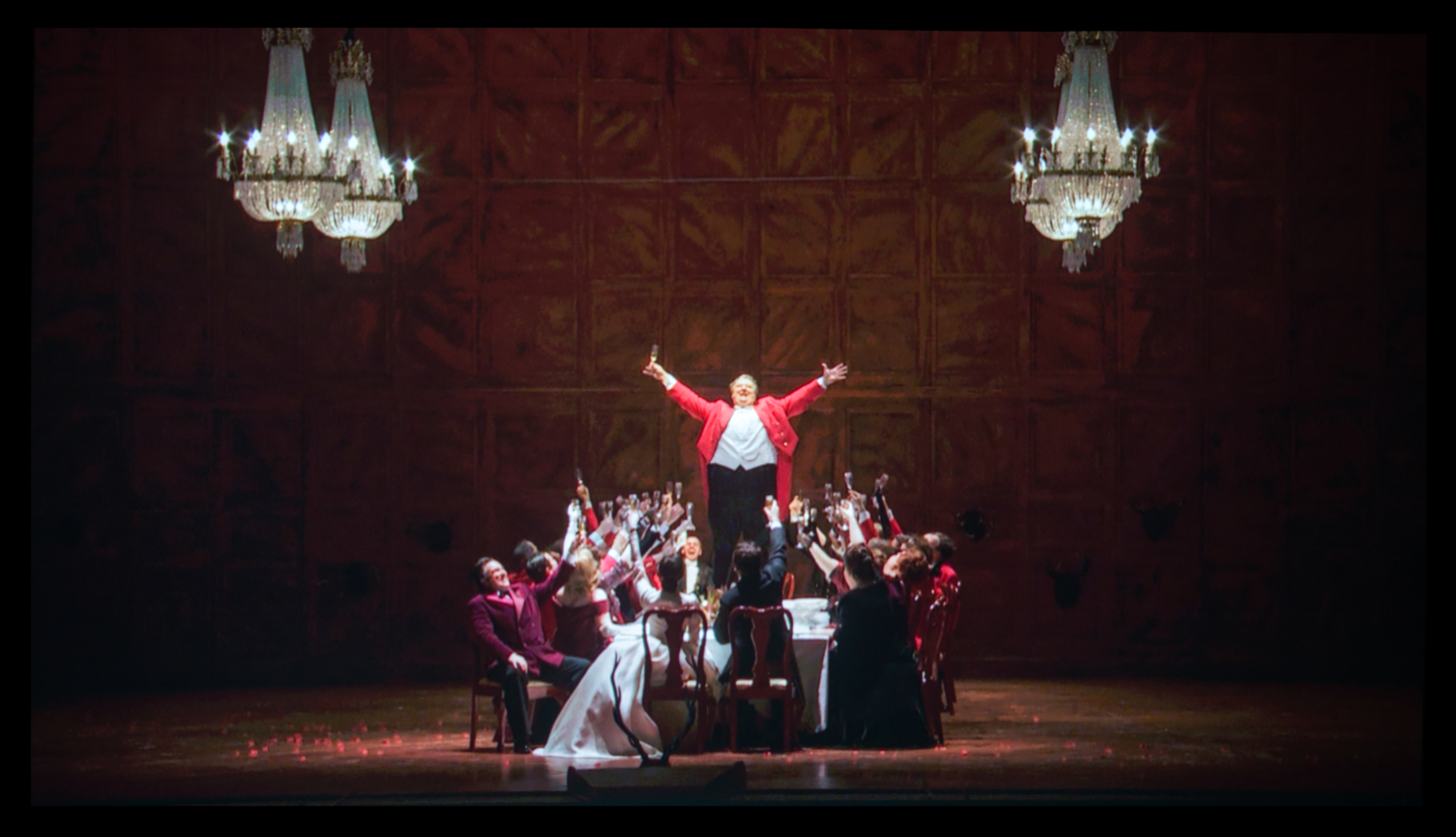 The Metropolitan Opera presents Falstaff, December 2013